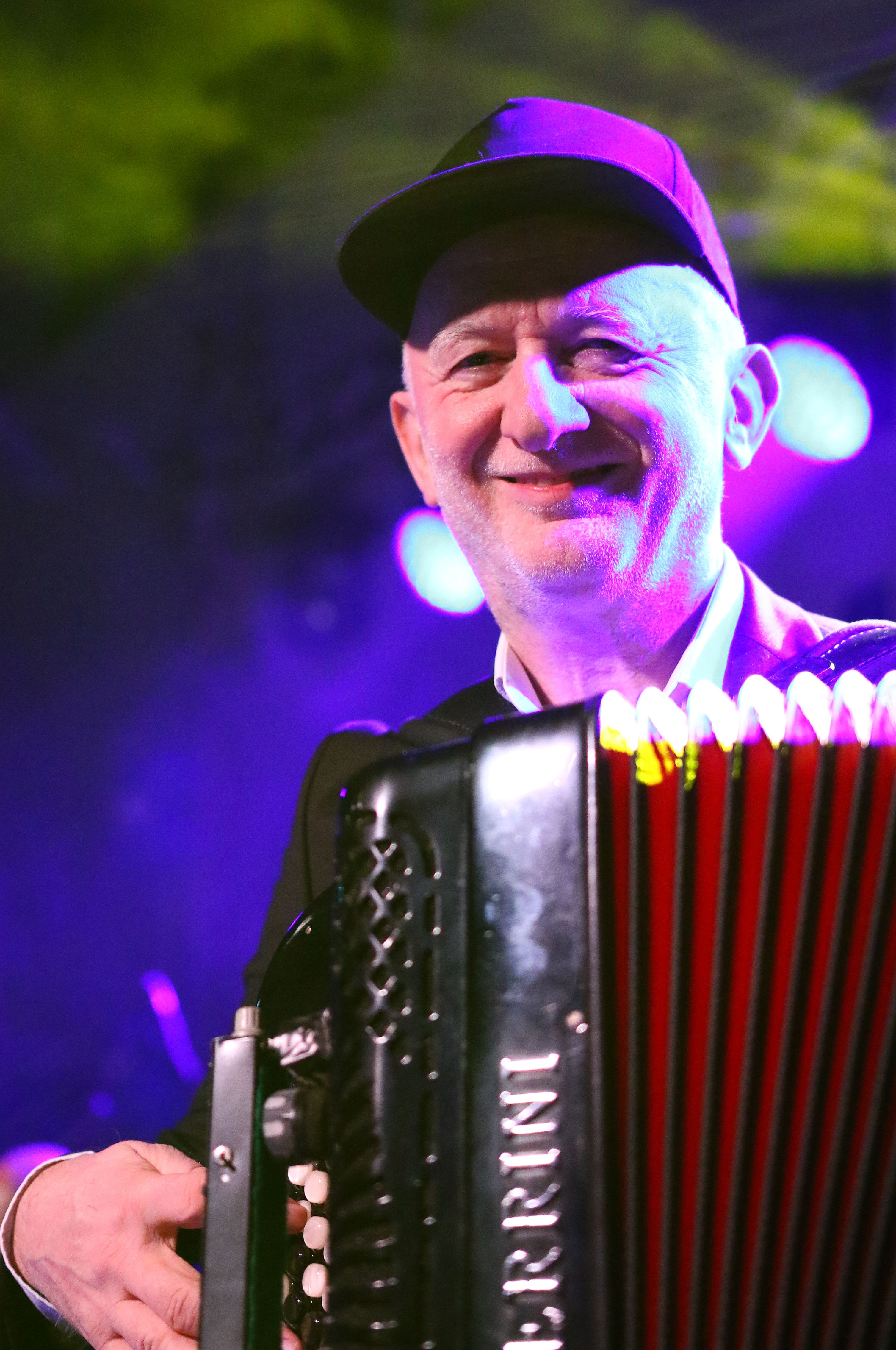 Milos Mijatovich "Misha" - Serbian composer and harmonica virtuoso.